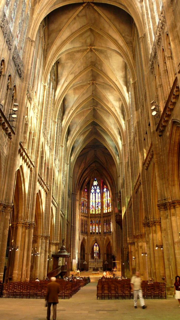 The nave of Metz Cathedral